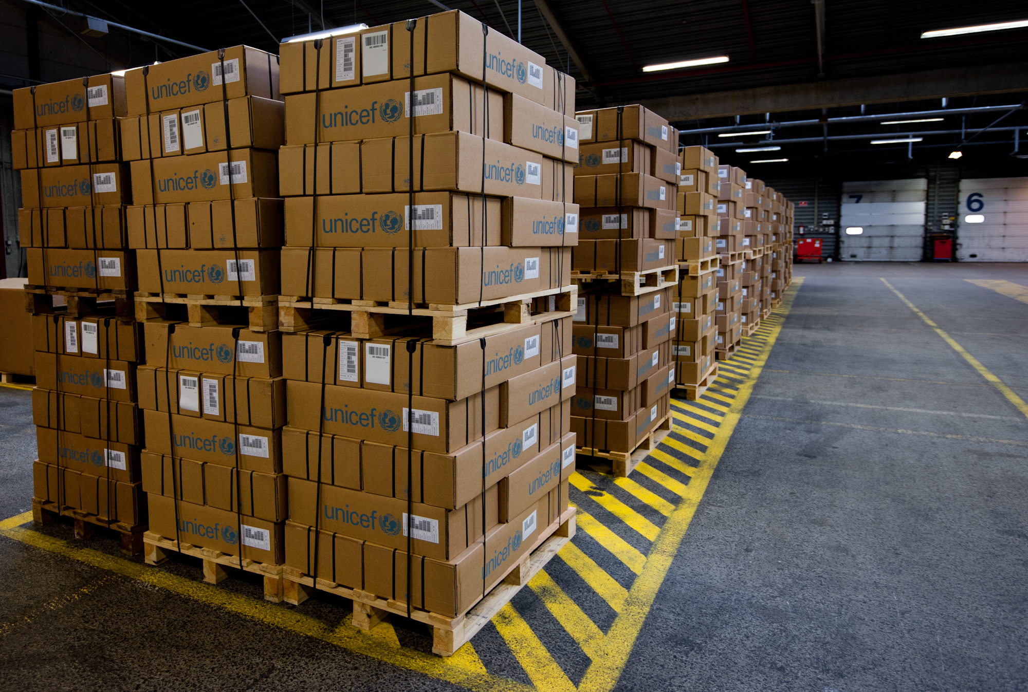 Pallets ready for shipping at the UNICEF world warehouse in Copenhagen